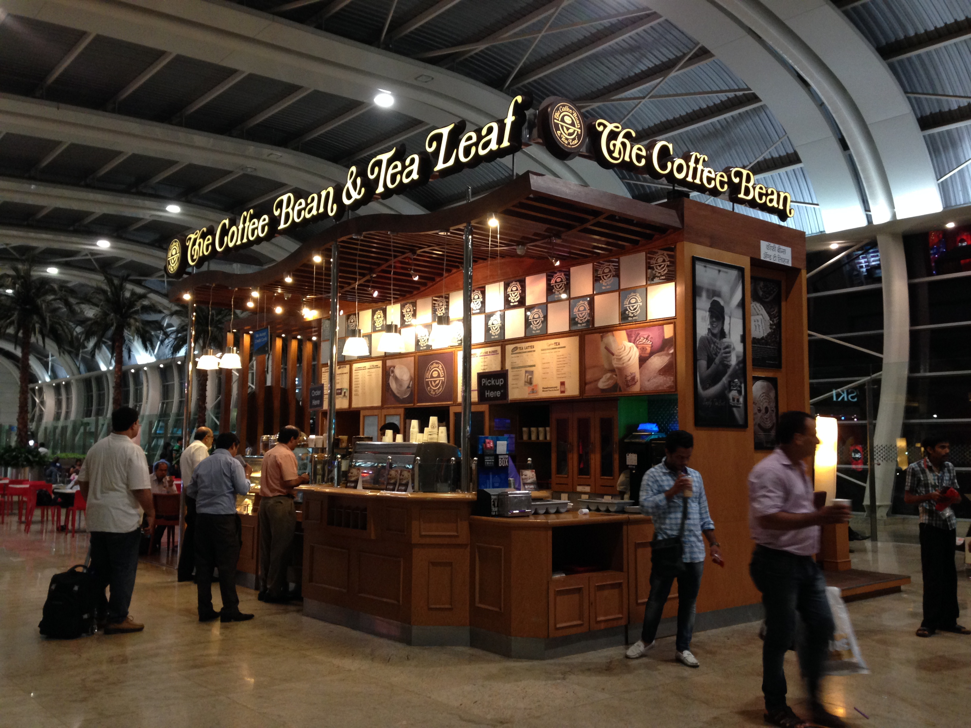 A picture of the coffee bean and tea leaf shop at Mumbai airport